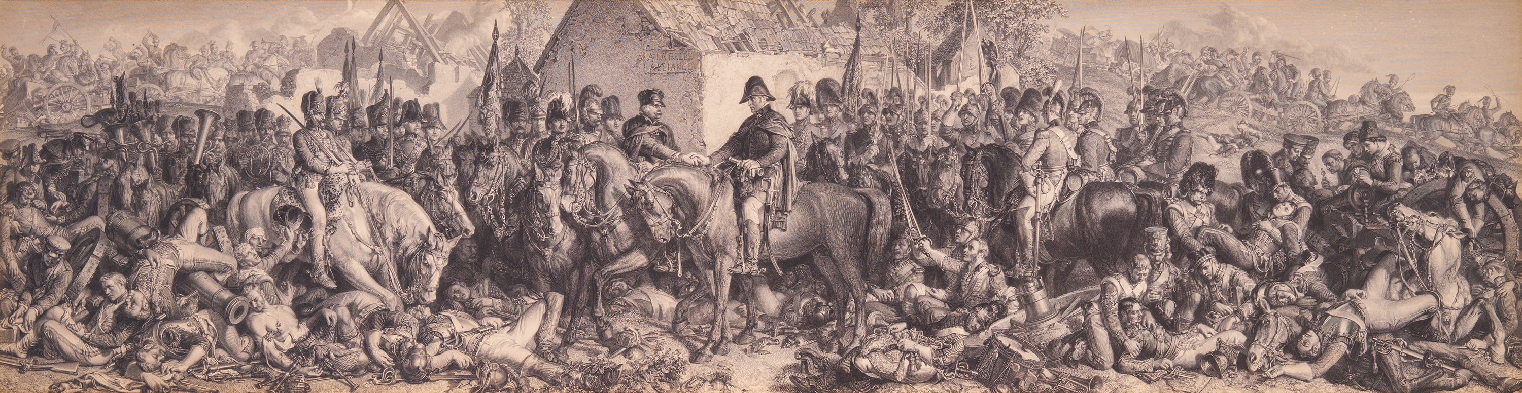 Wellington and Blucher Meeting After the Battle of Waterloo, Army & Navy Club, Accession number: 1980.02